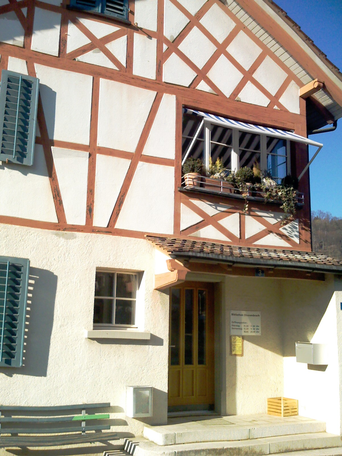 Oberembrach communal library - Komunumbiblioteko Oberembrach